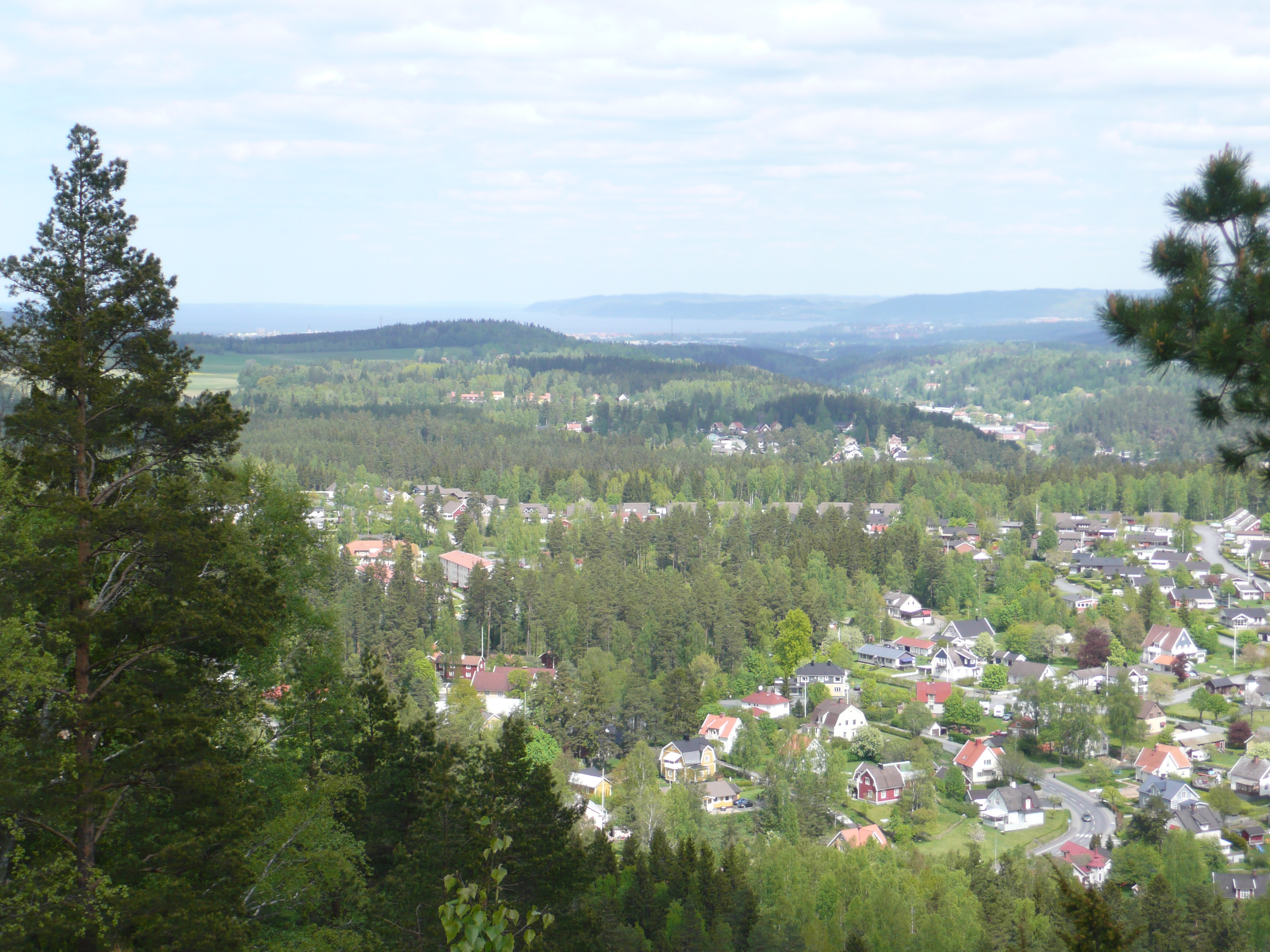 View of the Taberg river valley, from Taberg mountain